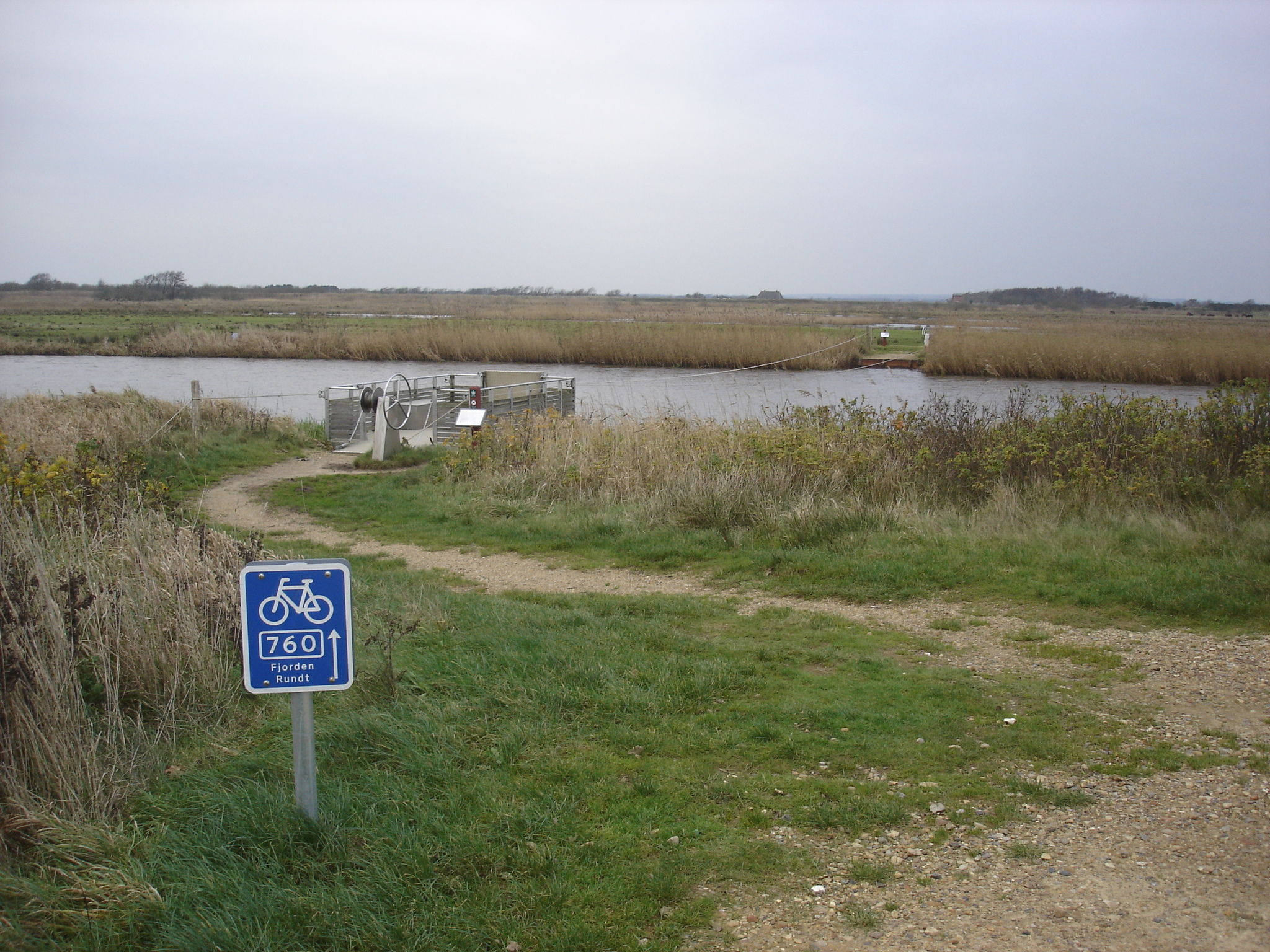 Hand-operated cable ferry for pedestrians and cyclist across the Fortgrøft (a branch of the Skjern Å)